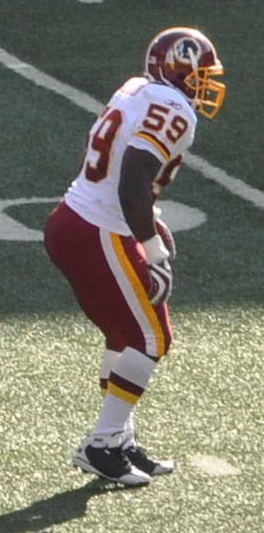 London Fletcher playing against the New York Giants in the 2009 season.